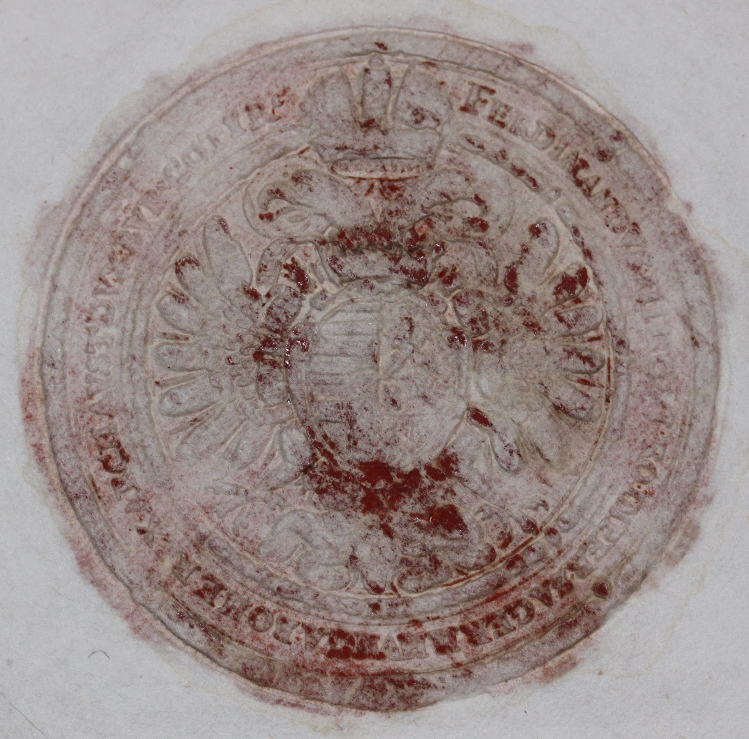 Seal of Ferdinand III Holy Roman Emperor from a military order, dated 3 May 1638; Legend surrounding the coat of arms: FERDINANDVS III D[EI] G[RATIA] EL[ECTUS] RO[MANORVM] IMPER[ATOR] S[EMPER] A[VGVSTVS] GERM[ANIÆ] HVNGA[RIÆ] BOHE[MIÆ] REX ARCH[IDVX] AVST[RIÆ] DVX BVR[GVNDIÆ] CO[MES] TYR[OLIS] Ferdinand III, by the grace of God, elected Emperor of the Romans, Ever August, King of Germany, Hungary, and Bohemia, Archduke of Austria, Duke of Burgundy, Count of Tyrol.